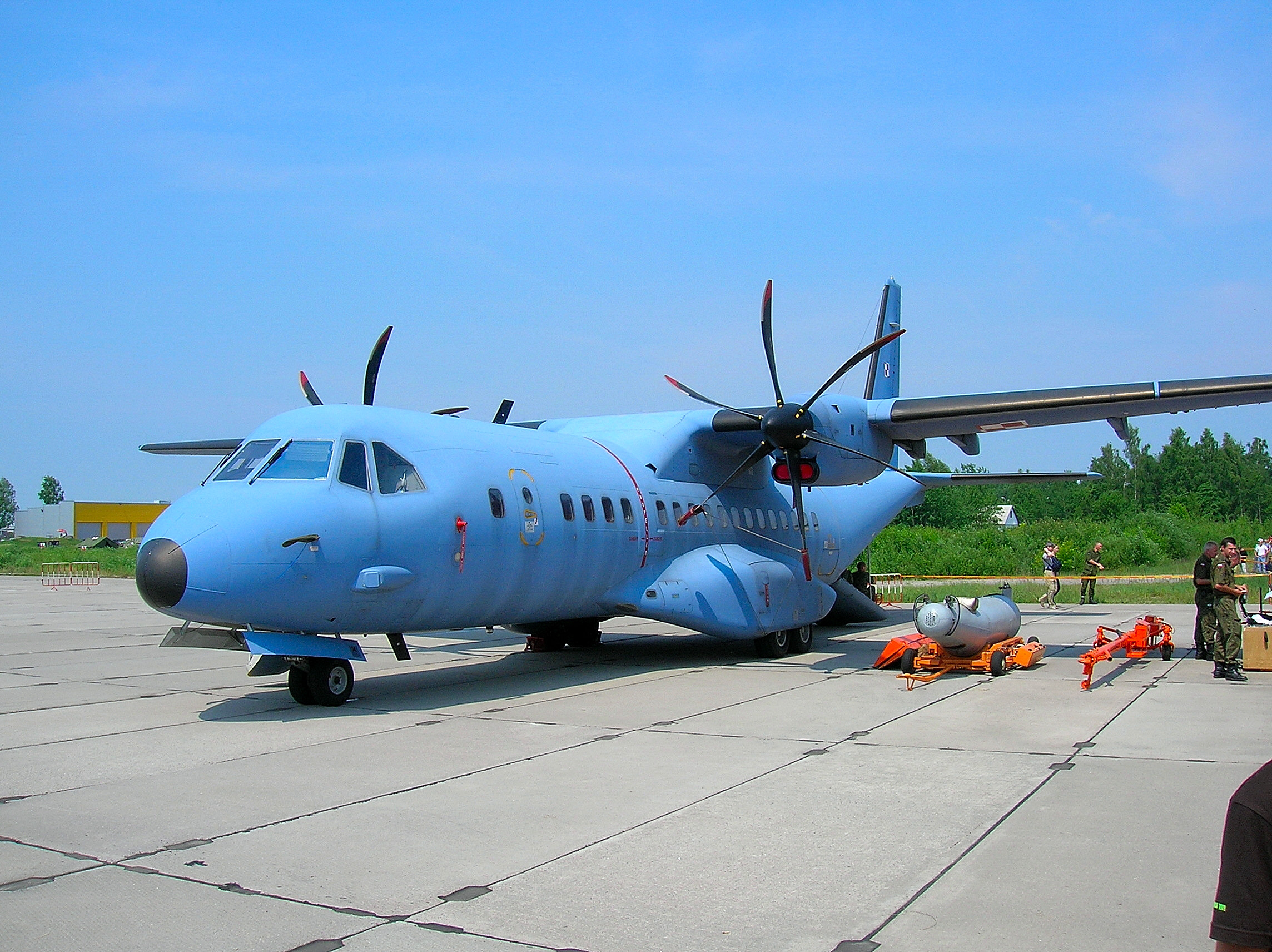 Polish Air Force CASA C-295M in the aviashow "Kilkime" (Kaunas, Lithuania).